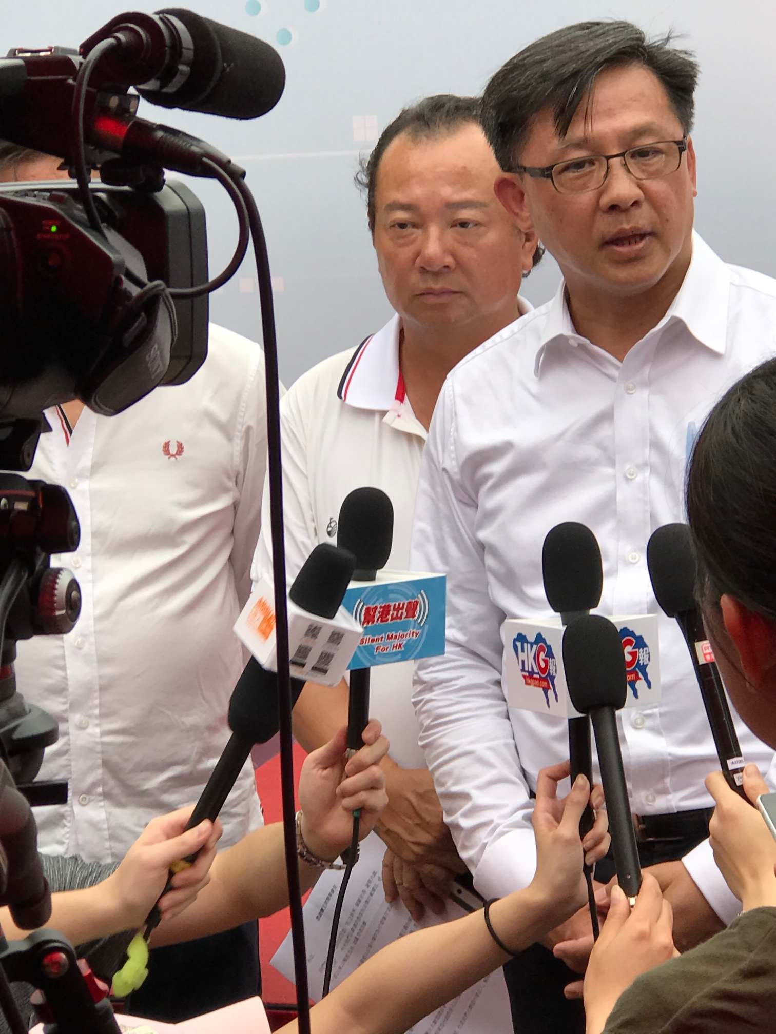 Interview of Junius Ho by Speak Out HK and related organizations , Silent Majority for Hong Kong during 2018 anti-Benny tai campaign in Leungtin Village.